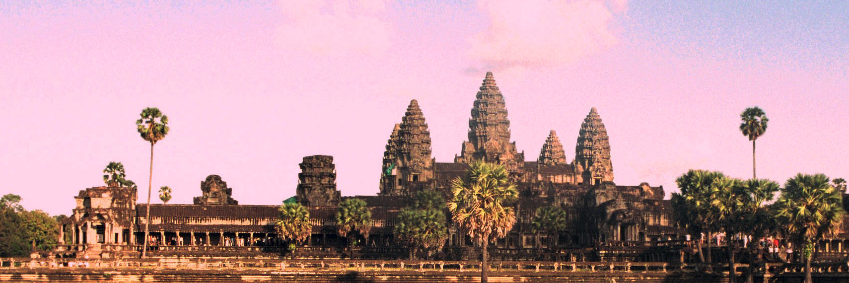 Cropped from File:Angkor Wat from north pond.JPG